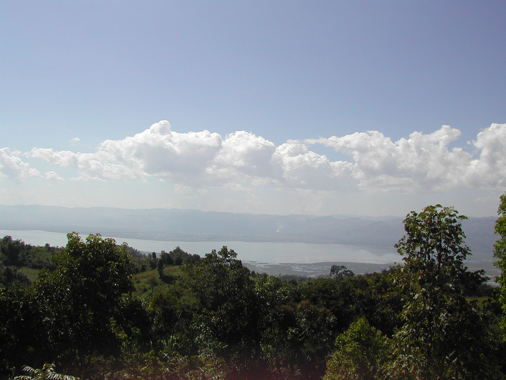 View onto the Inle Lake.